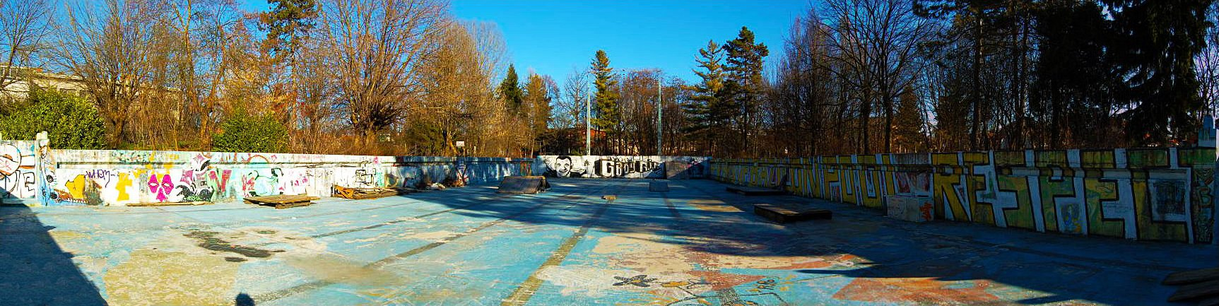 Kolezijski bazeni in zapuščenost